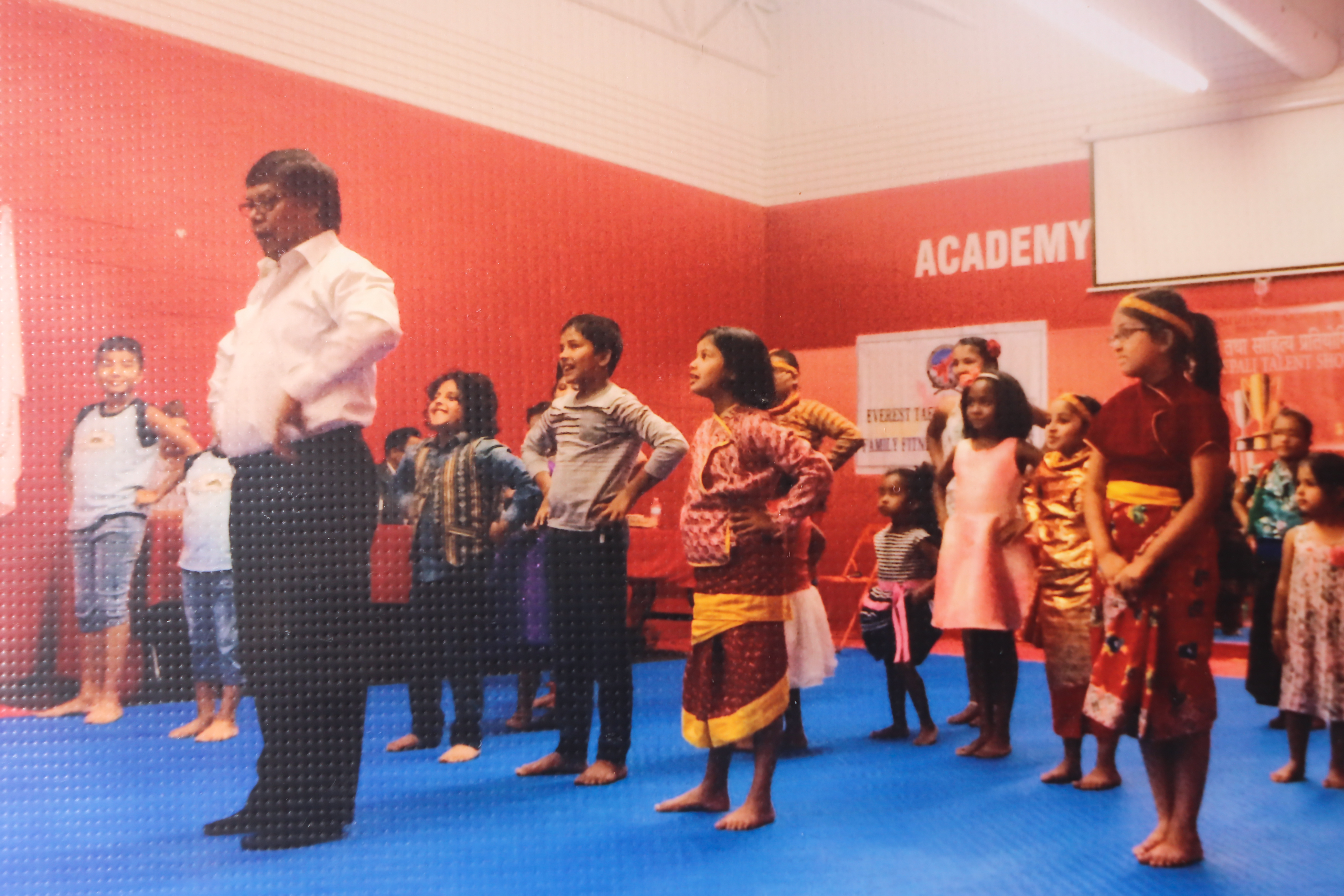 Purna Nepali with his dance students in Canada